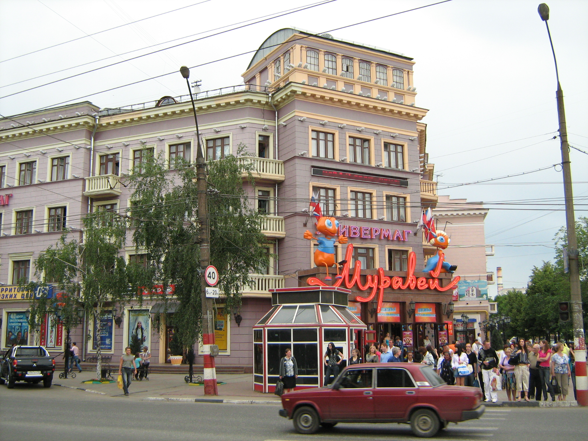 Komintern St in central Sormovo. "Muravei" Department Store